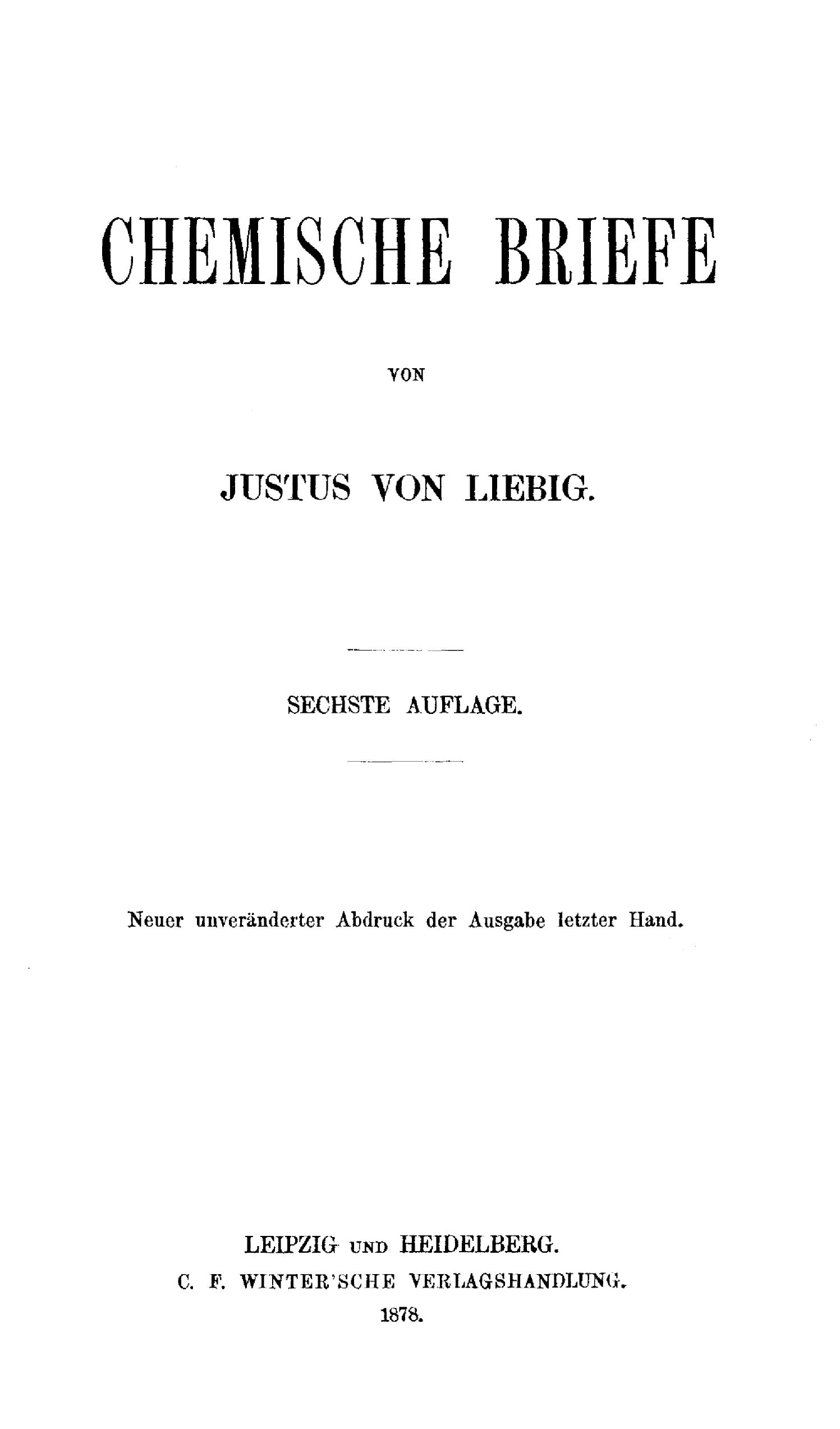 This is a scan of the historical document